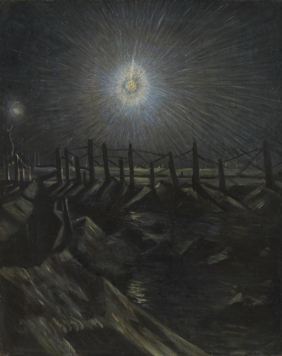 A Star Shell (1916), Christopher Richard Wynne Nevinson, Tate Gallery, London.